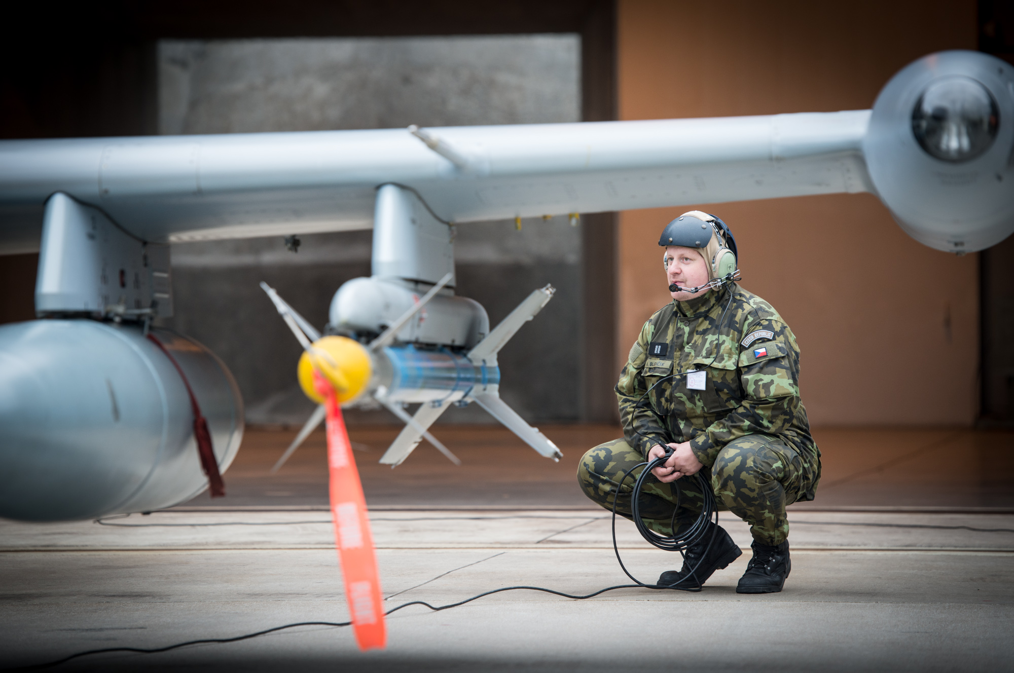 A Czech Republic Crew Cheif monitors his L-159 Alca prior to take off during the first day of the air portion of Ex Steadfast Jazz at 31st Air Tactical Base, Poznan, Poland, on Nov. 5, 2013. Exercise Steadfast Jazz 2013 is taking place from 1-9 November in a number of Alliance nations including the Baltic States and Poland. The purpose of the exercise is to train and test the NATO Response Force, a highly ready and technologically advanced multinational force made up of land, air, maritime and special forces components that the Alliance can deploy quickly wherever needed. The Steadfast series of exercises are part of NATO’s efforts to maintain connected and interoperable forces at a high-level of readiness. (NATO photo/SSgt Ian Houlding GBR Army)